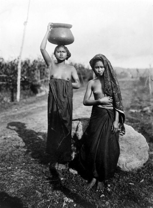 Portrait of two Balinese women